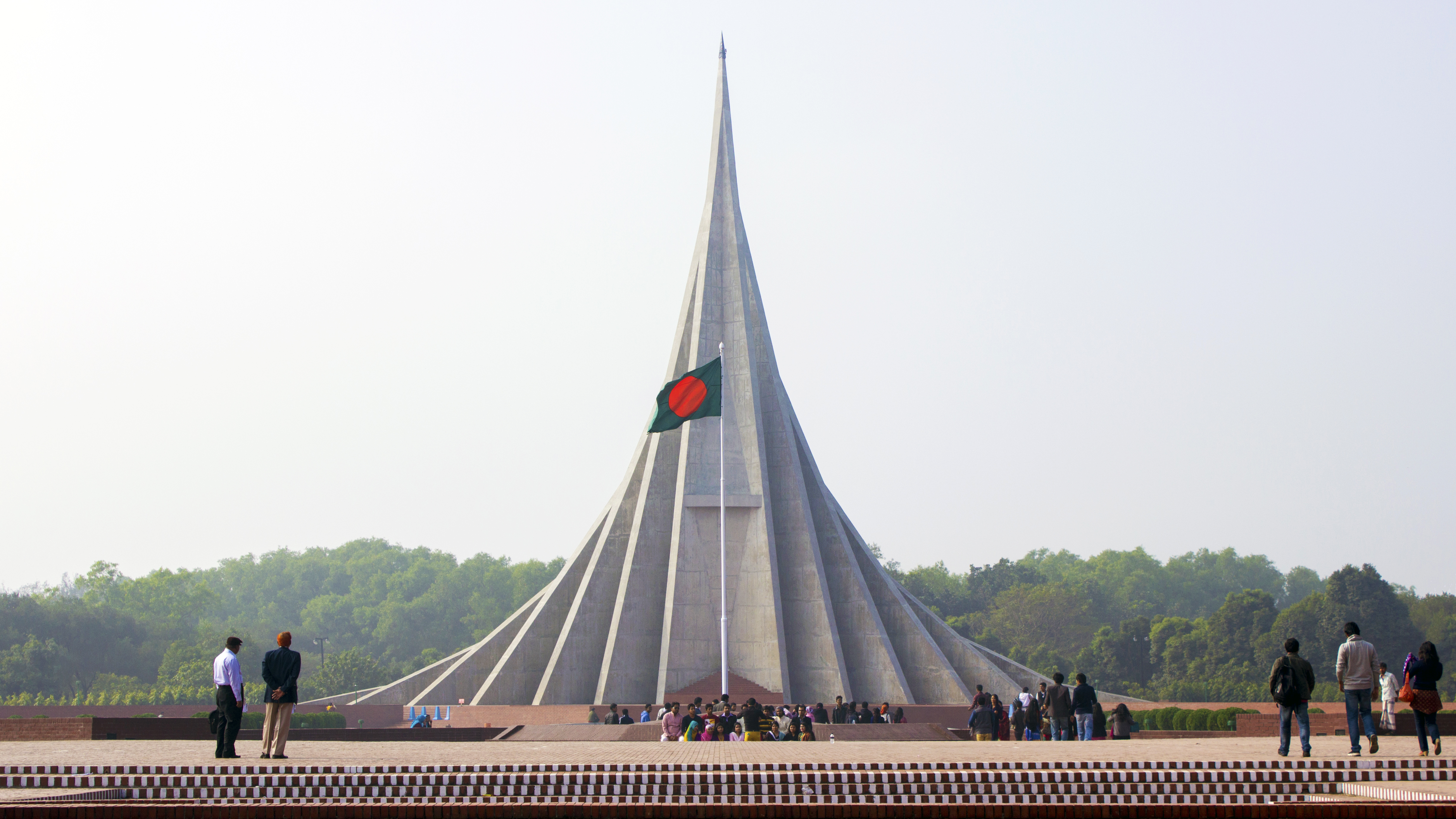 জাতীয় স্মৃতি সৌধ The National Martyrs' Monument of Bangladesh is known as the "Jatiyo Smriti Soudho".